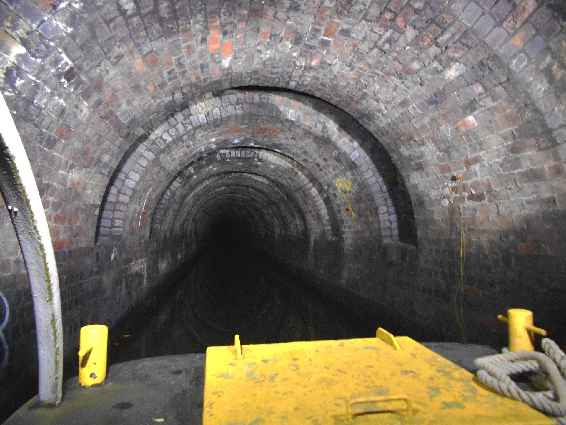 Inside Standedge canal tunnel.